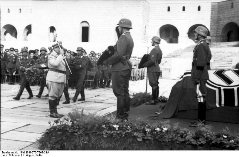 Tannenberg Memorial (not exists anymore), East Prussia (now Poland), General Günther Korten's funeral, 22.07.1944.